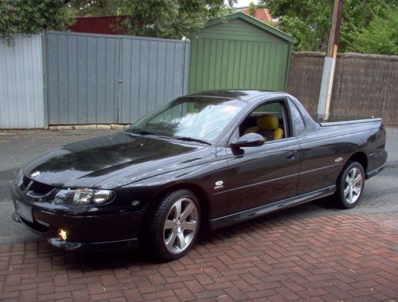 2001 Holden VU II Ute Fifty SS.